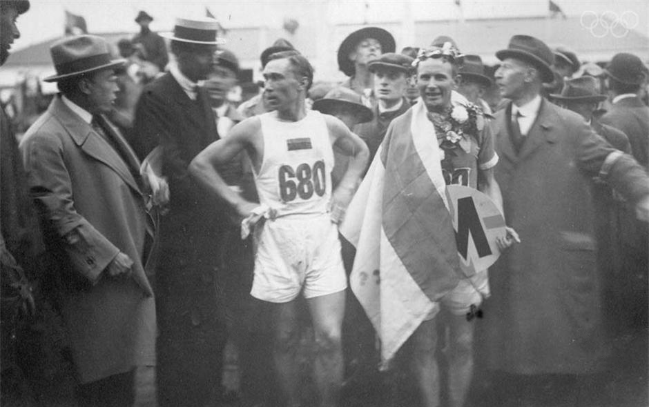 Jüri Lossmann and Hannes Kolehmainen at the 1920 Olympics